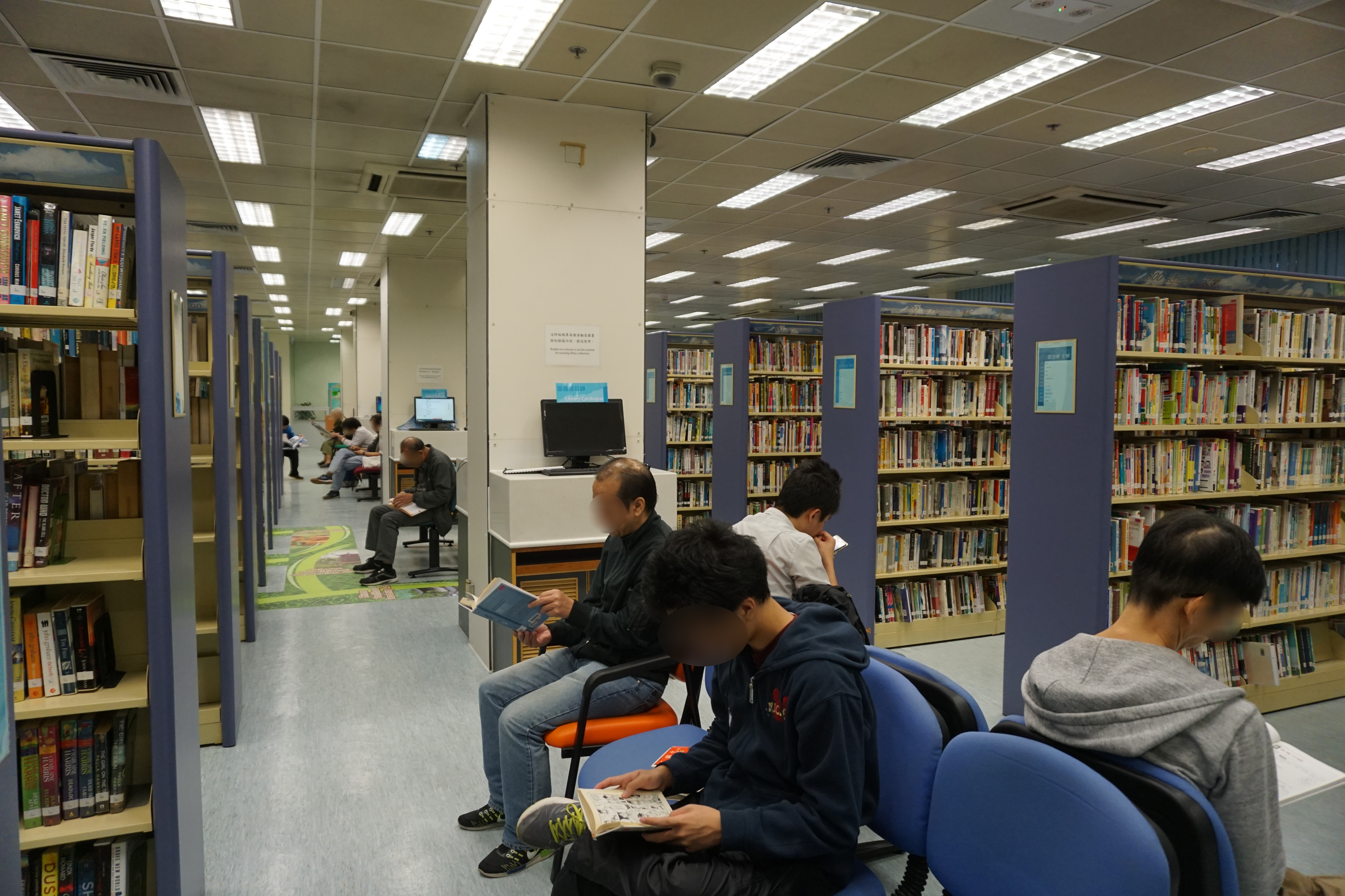 North Kwai Chung Public Library in Shek Yam, Hong Kong.